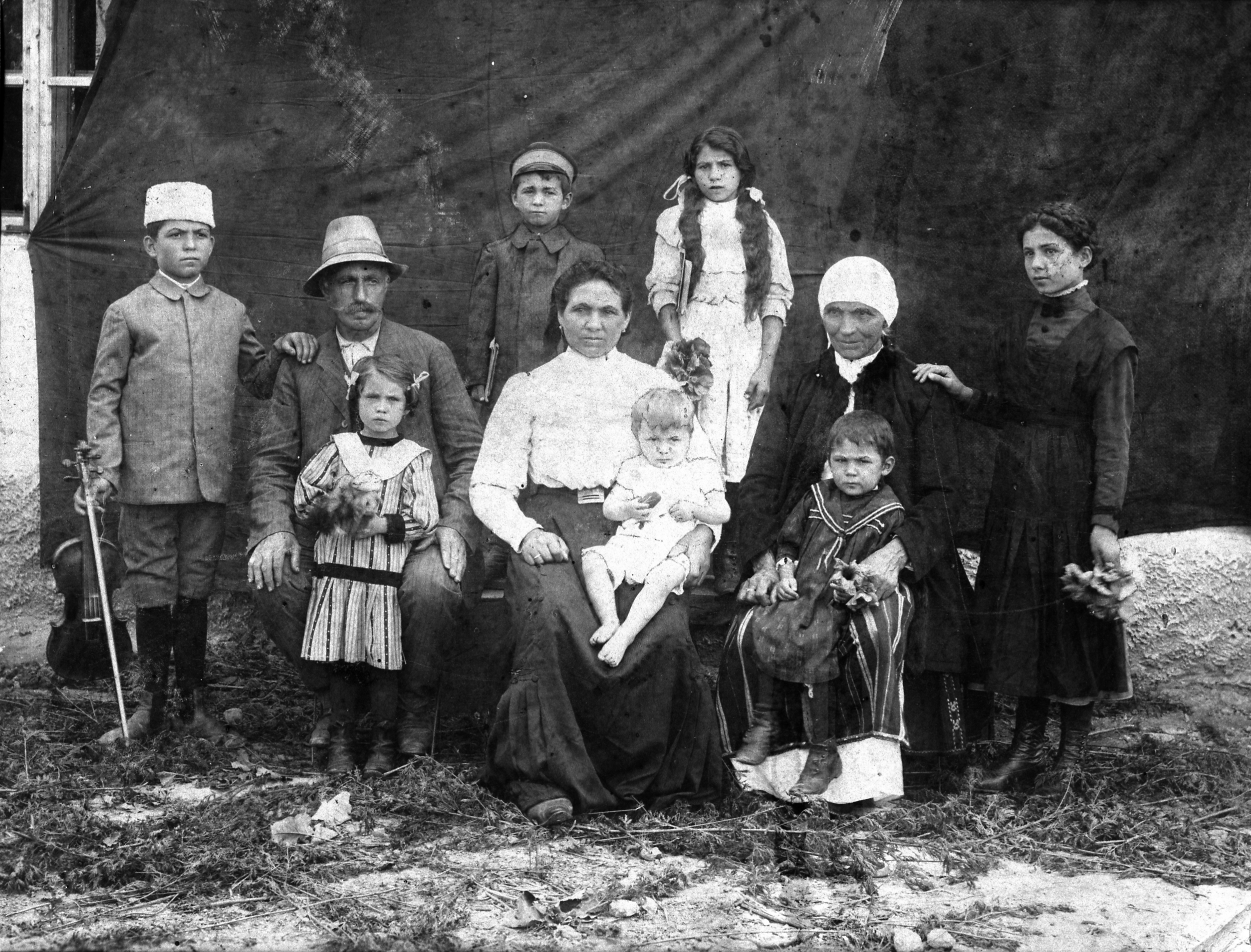 Petar Konstantinov family, v. Mihajlovo, Vraca Province, Bulgaria-1912